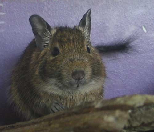 Picture by gettiz, copyright belongs to gettiz, authored by gettiz.